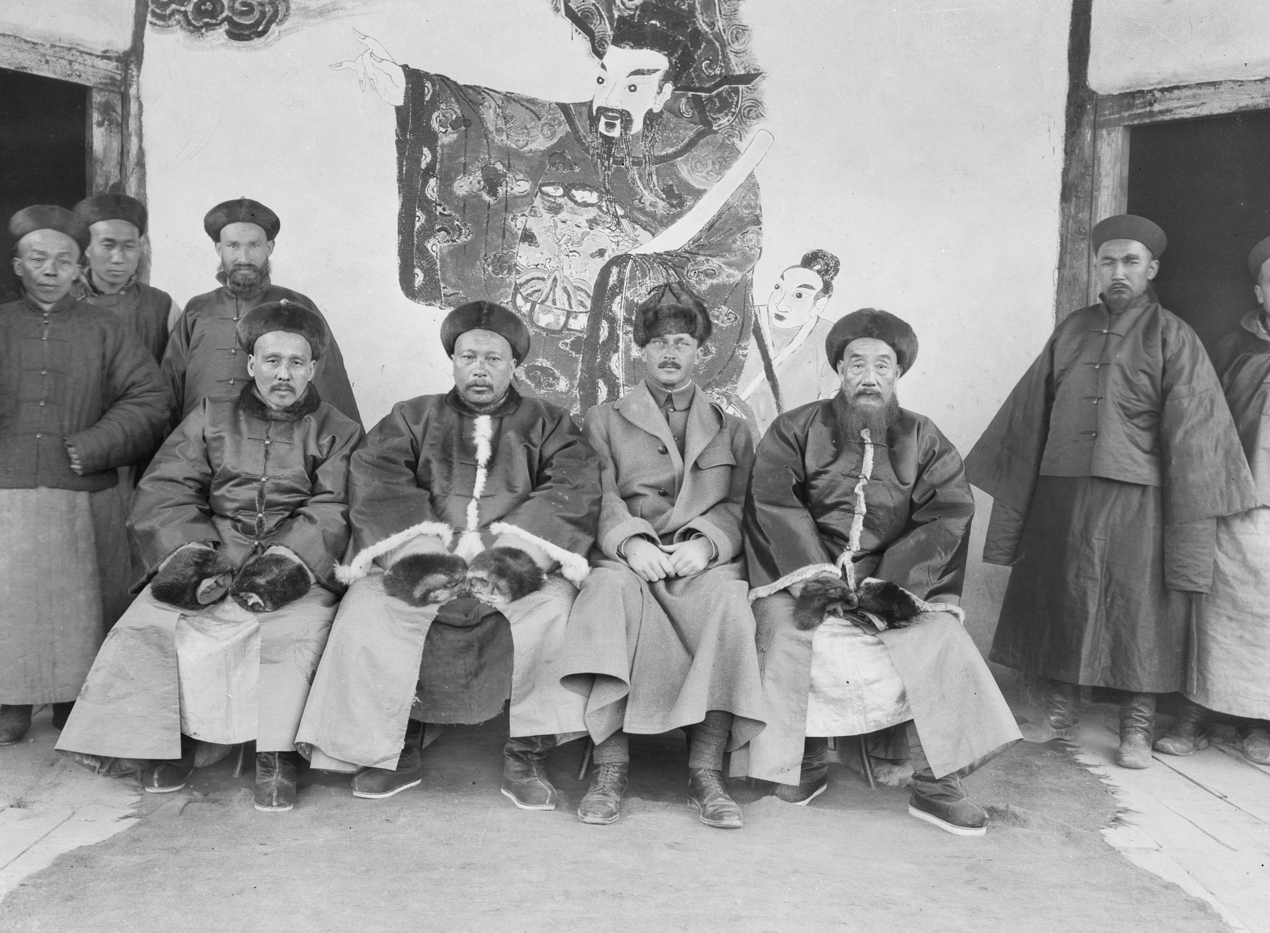 Local officials, led by daotaem and Mannerheim